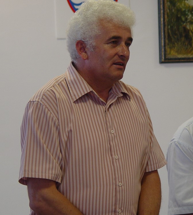 Göncz, Hungarian politician and historian from Prekmurje (2007)